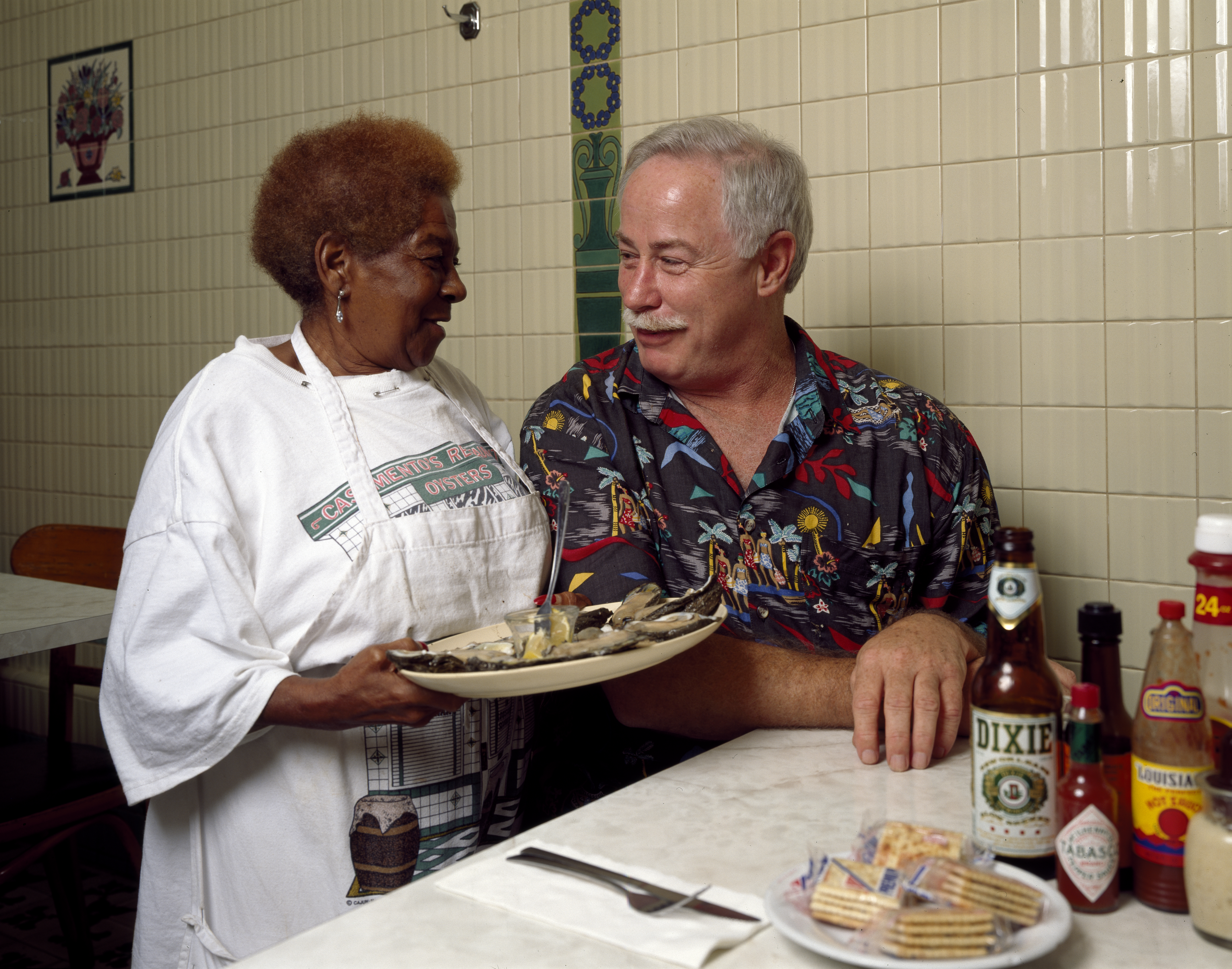 "New Orleans writer and television personality Ronnie Virgets is served the house specialty, ice-cold oysters on the half shell, by Alma Griffin at Casamento's Seafood Restaurant in Uptown New Orleans, Louisiana"